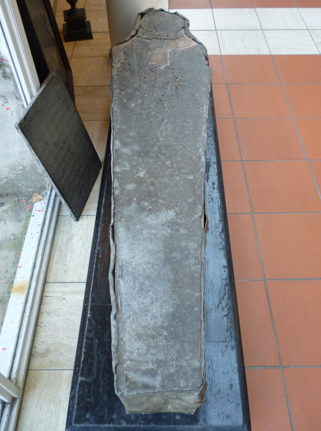 Leaden sarcophagus of Judith of Brittany aka Judith de Conan (982-1017). The sarcophagus was made in the 11th century and found in the 19th century in the foundations of the church of the abbey Notre-Dame in Bernay. The skeleton in the sarcophagus was that of an important woman of small body height with a congenital deformation of the haunch. Deformations of this kind were common amoung women of Brittany, sometimes, but not always, making it impossible for them to give birth to children. The Current location of the sarcophagus: musée des Beaux-Arts de Bernay LocationBernayCoordinates49° 05′ 22.22″ N, 0° 35′ 52.13″ E Established1866, moved in 1891 to this locationWeb page Authority control : Q1027402 VIAF: 167787417 LCCN: nr92028358 Museofile: M0701 WorldCat institution QS:P195,Q1027402